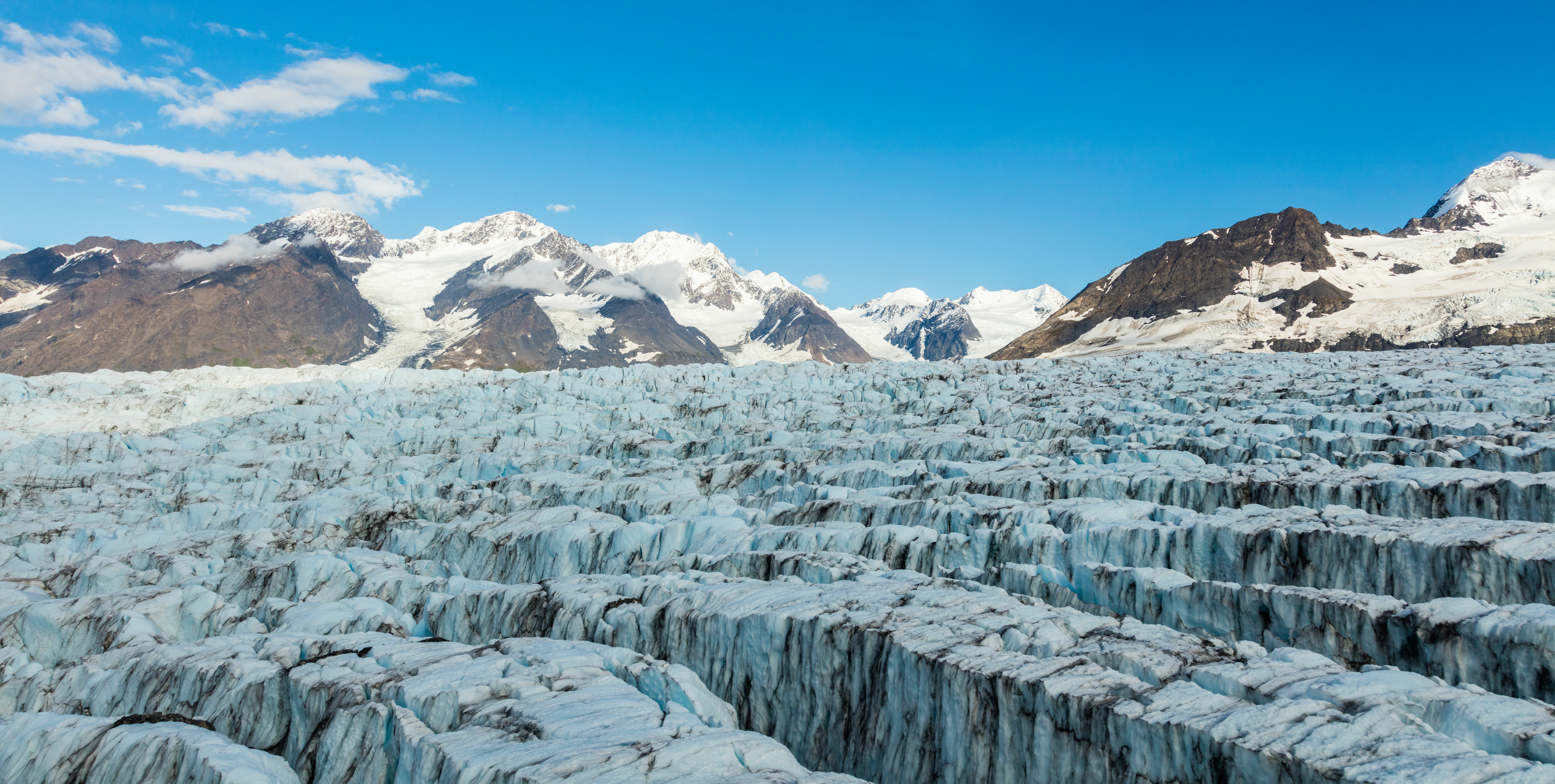 Chugach State Park, Alaska, United States